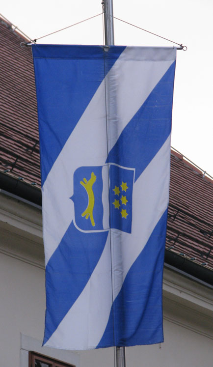 Flag of Brod-Posavina County, Croatia